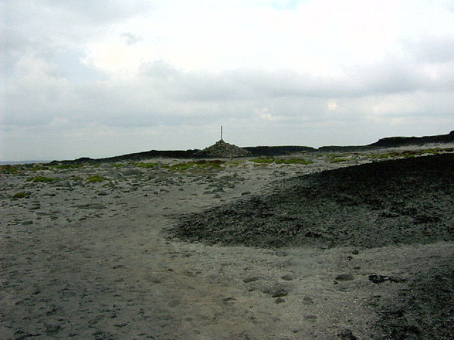 The summit of Bleaklow at grid reference SK092959 in Derbyshire, England. This photograph shows the very severe erosion of the peat bog.